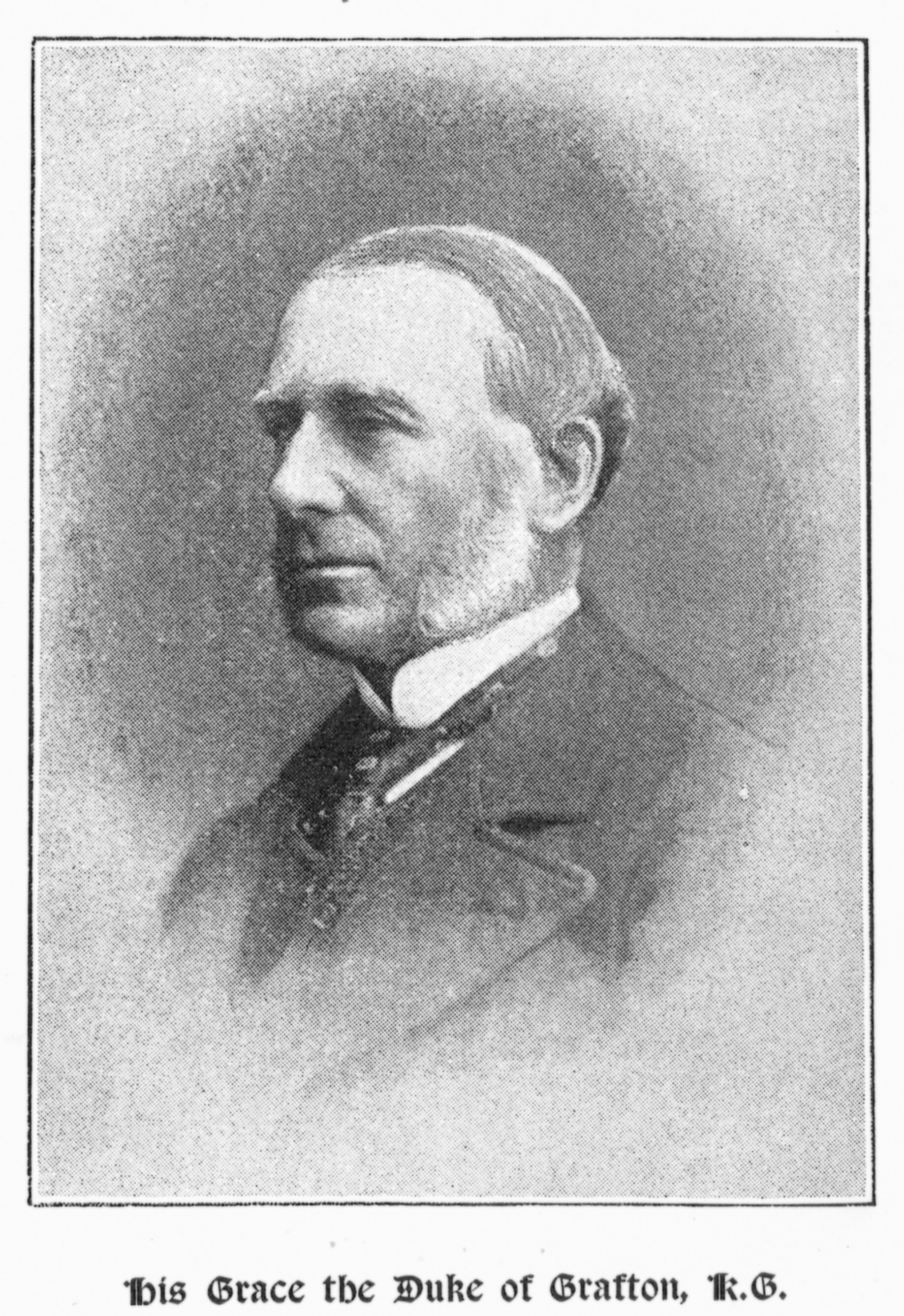 Portrait of Augustus Charles Lennox FitzRoy, 7th Duke of Grafton, published August 1893 in Suffolk Celebrities